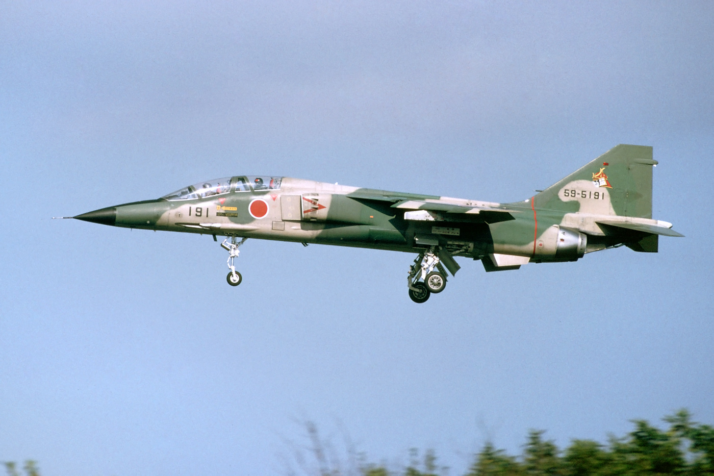 MItsubishi T-2 of 3 Hikotai at Misawa. October 1994.